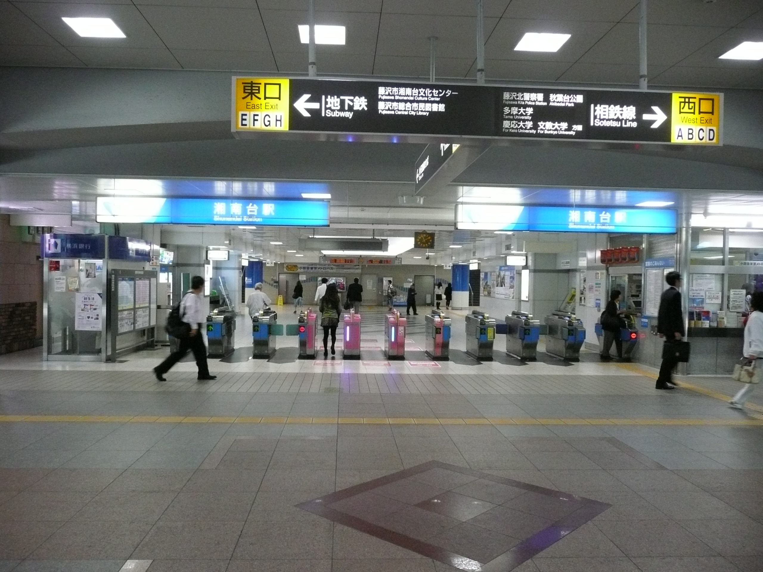 Ticekt gate of Odakyu Shōnandai Station